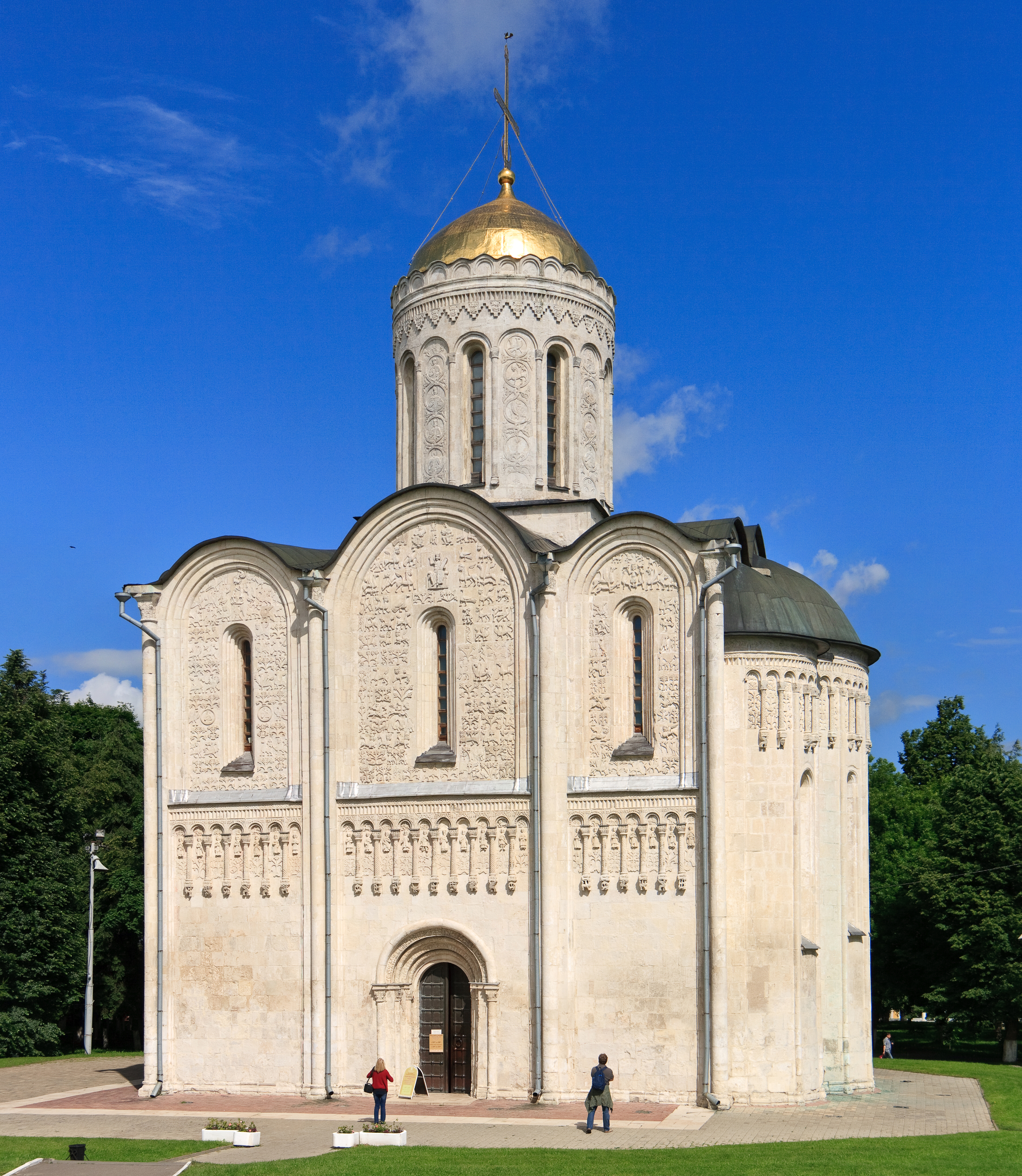 Saint Demetrius Church, Vladimir, Russia